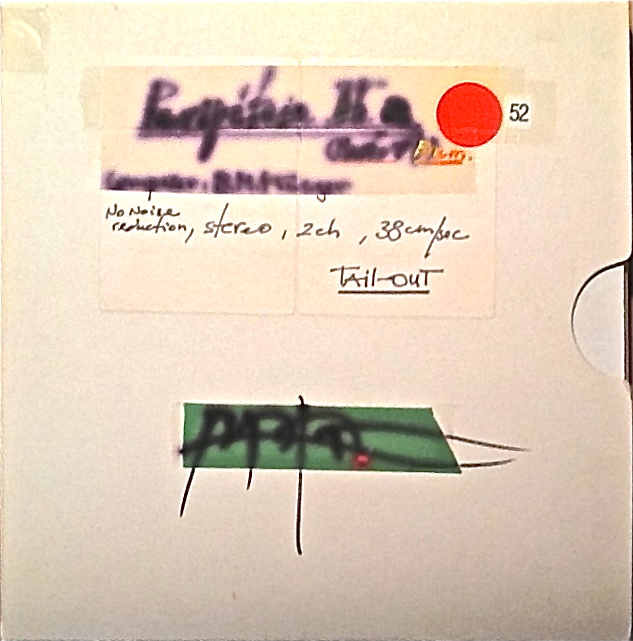 Bernardo Kuczer, Peripéteia IIa, cover & storage box of the original tape-piece